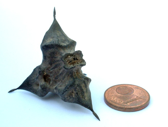 Fruit of Trapa natans (water caltrop or water chestnut).